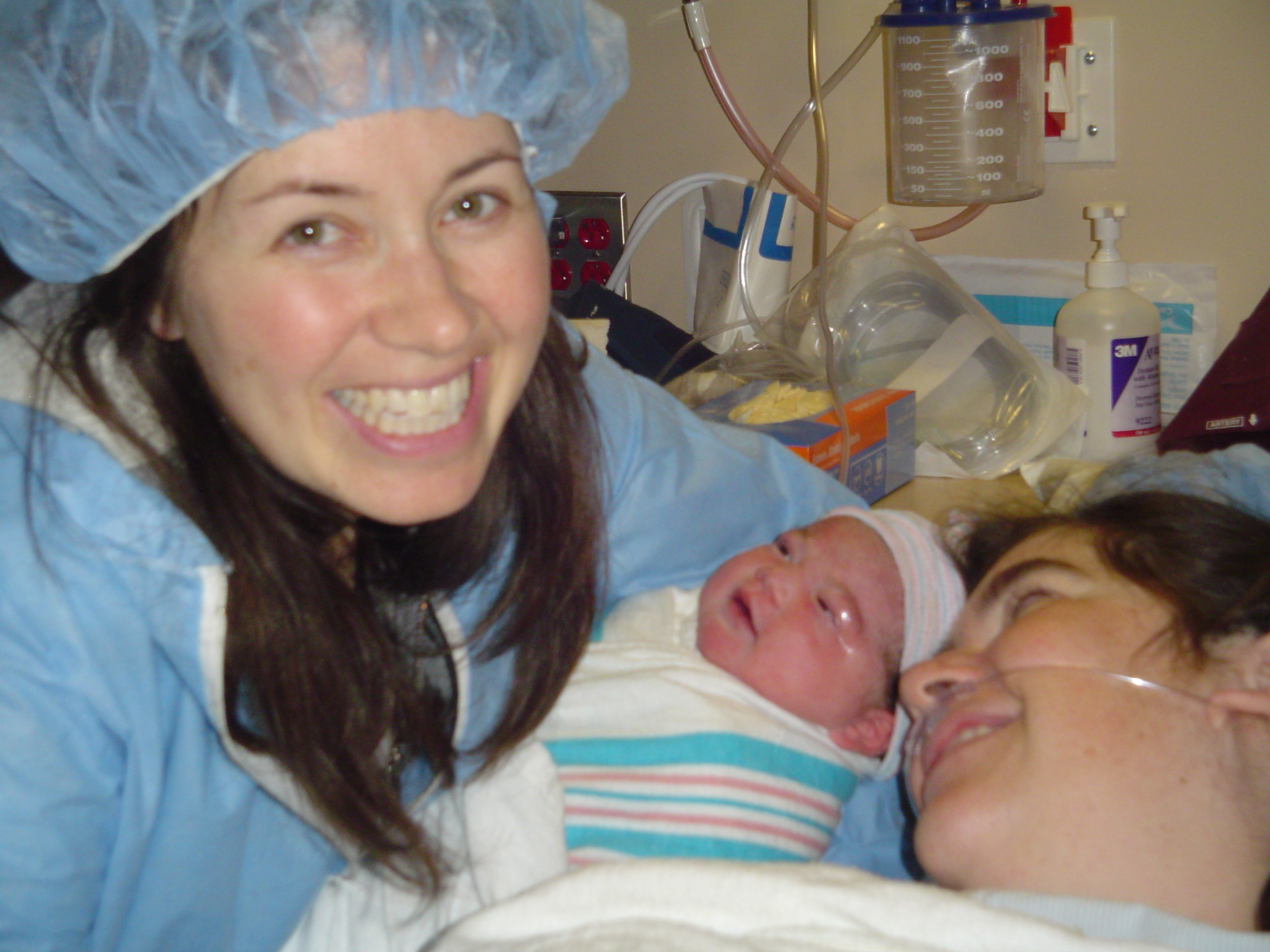 Doula (L) with newborn and mother